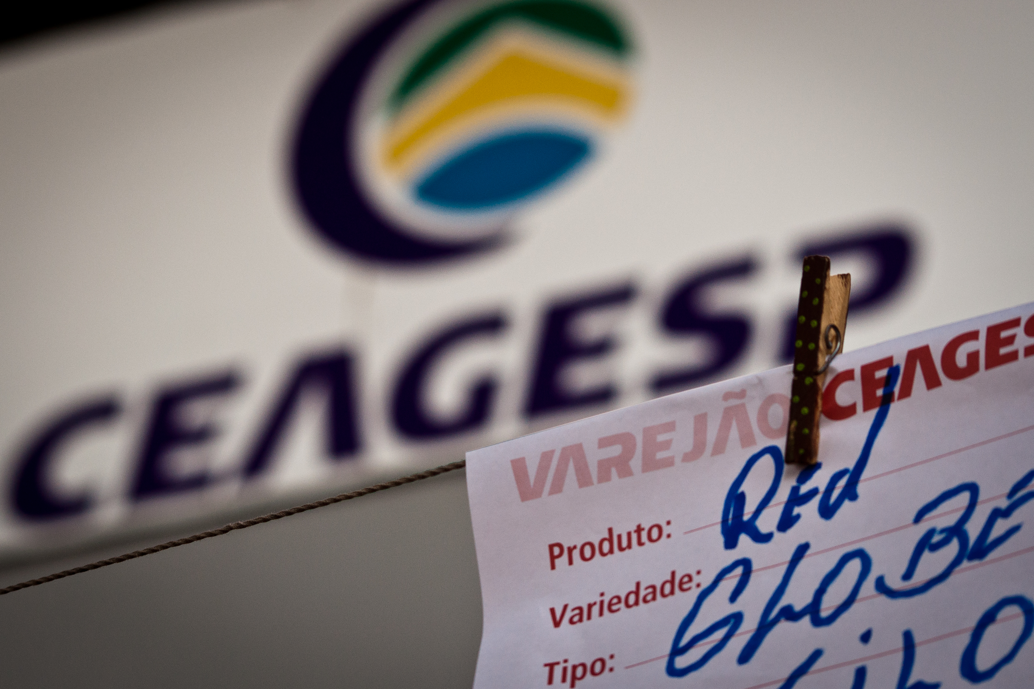 CEAGESP Classic price paper detail and logo